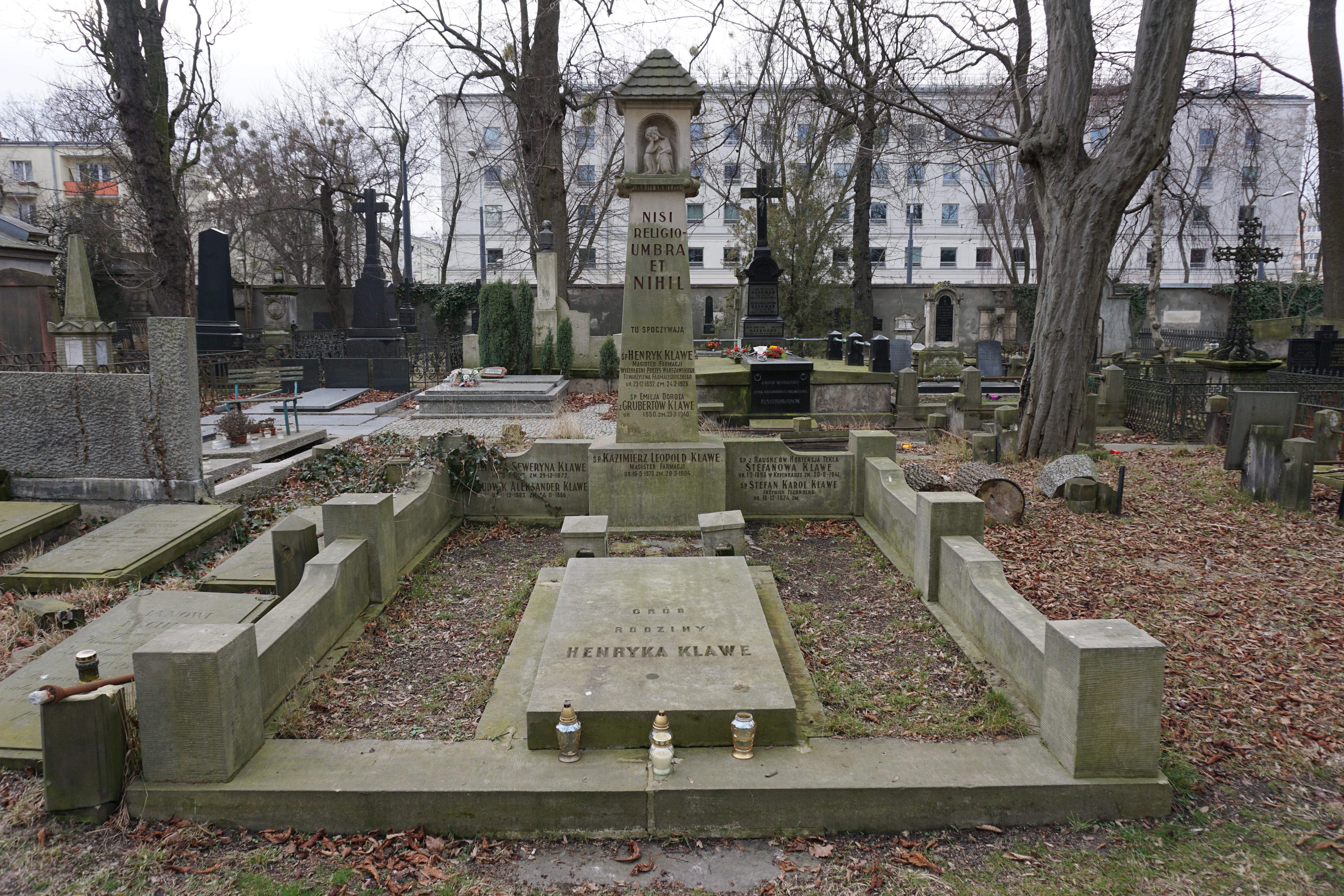 The grave of Henryk Klawe at the Evangelical-Augsburg Cemetery in Warsaw (avenue 5, Grave 11)